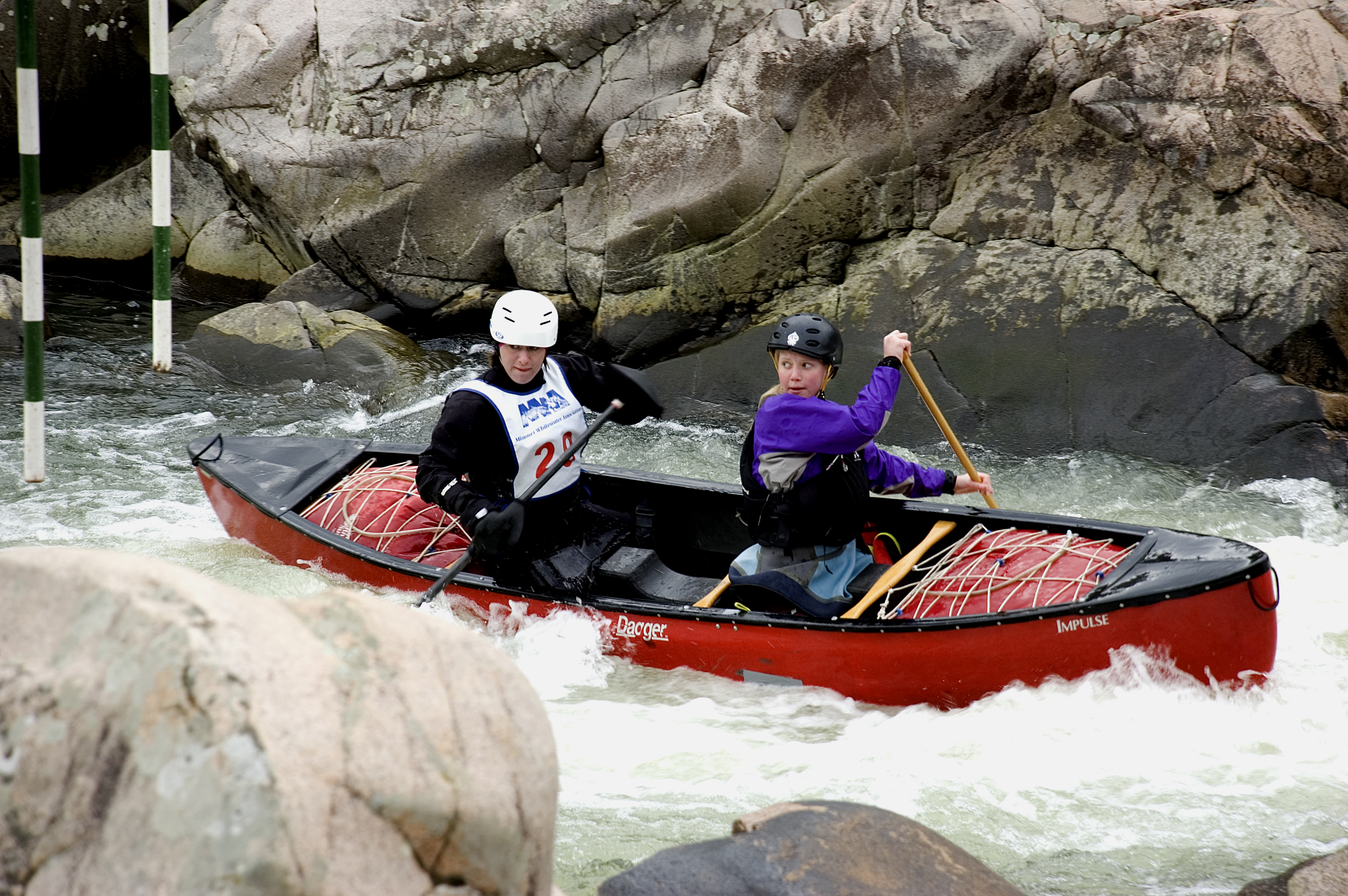 C-2 (two-person canoe) Dagger Impulse during the Missouri Whitewater Championship 2008, on the St. Francis River.